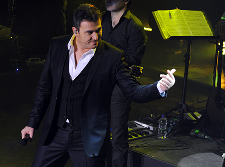 Greek singer Antonis Remos performing live at Diogenis Studio in Athens, Greece on December 31, 2010.